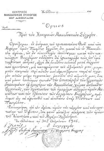 Central_Macedonian_Committee Document